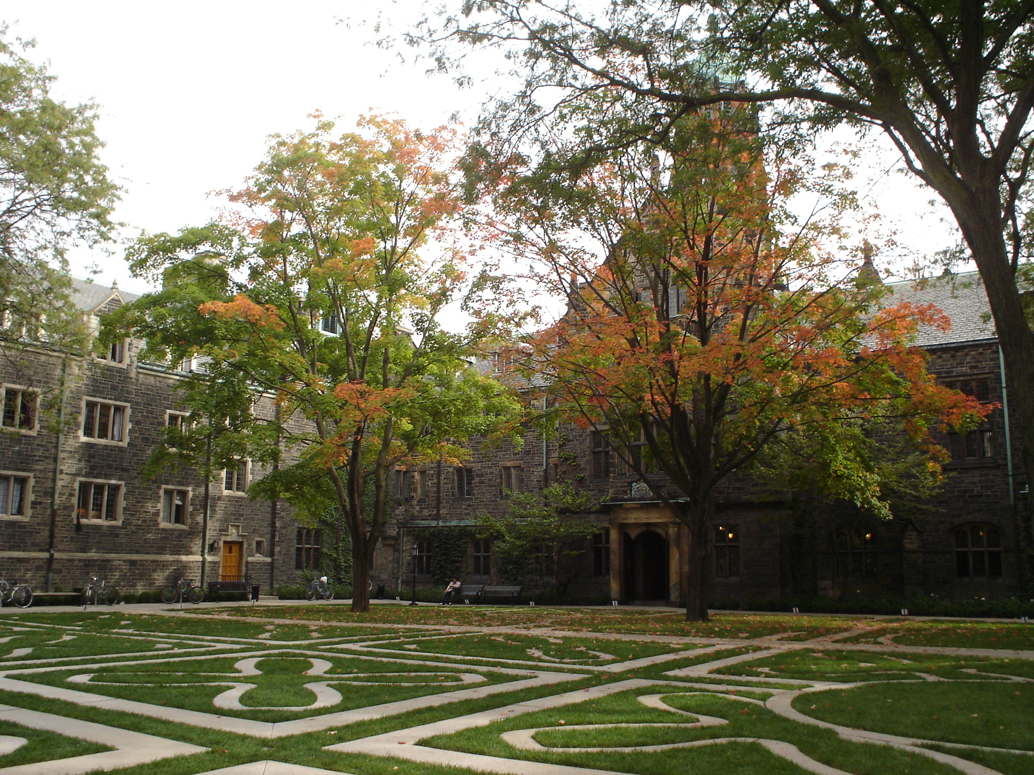 A view of the Trinity quadrangle taken facing the Provost’s lodge in the autumn of 2007, shortly after the renovation of the quad.